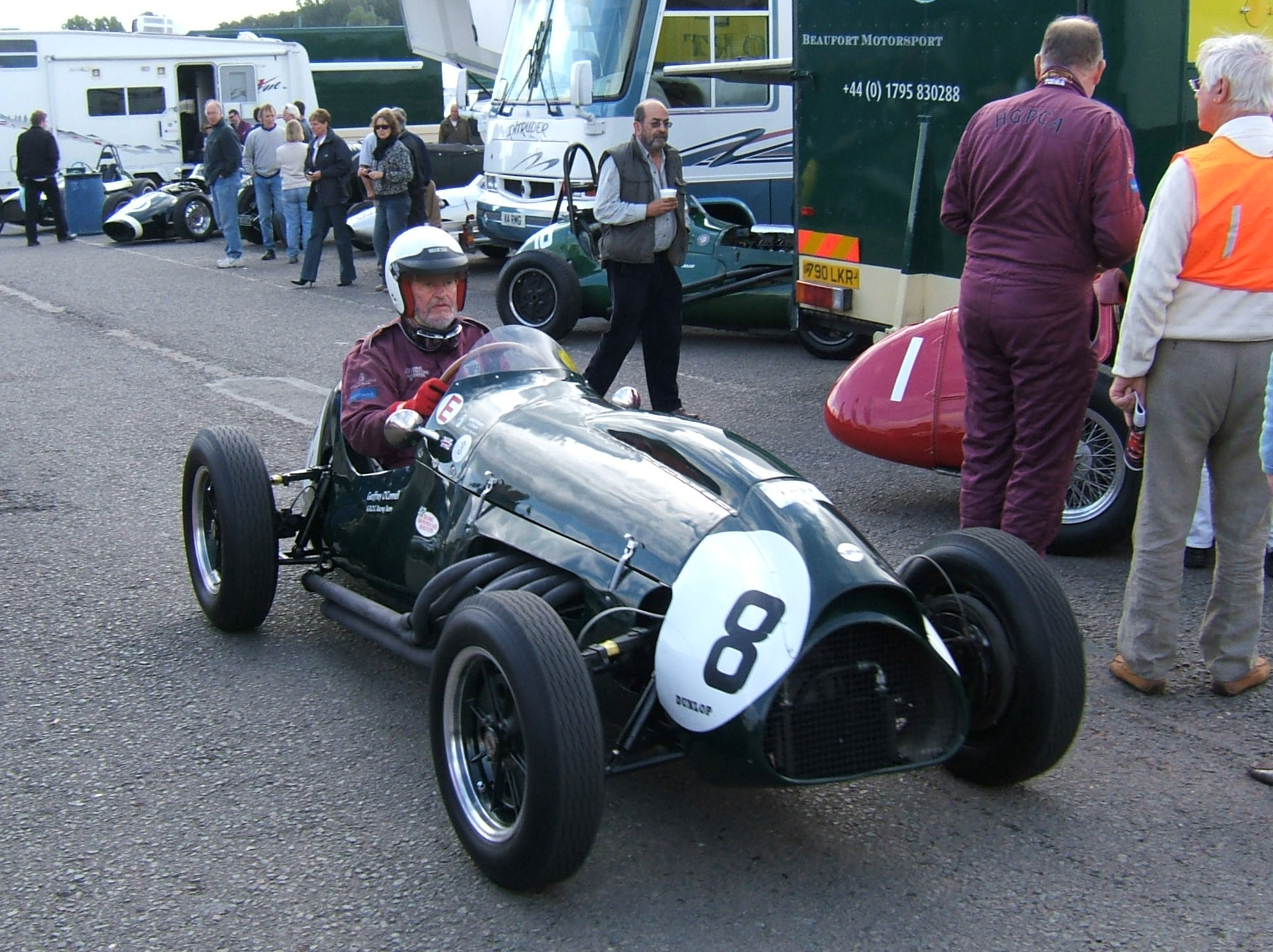 A Cooper Bristol Mk2 makes its way through the paddock of the VSCC SeeRed race meeting, Donington Park, September 2007.